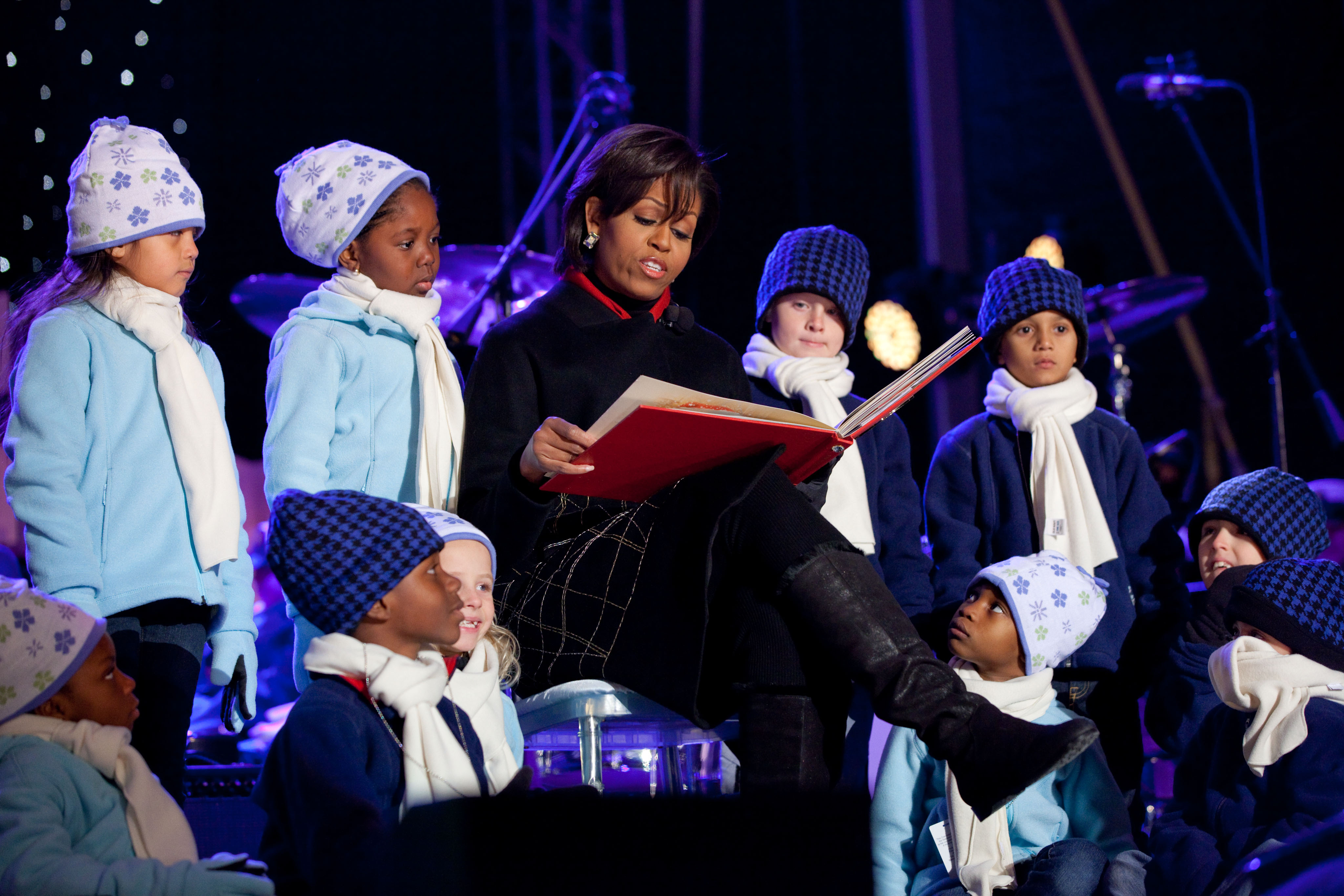 First Lady Michelle Obama reads “‘Twas the Night Before Christmas” at the National Christmas Tree lighting ceremony on the Ellipse in Washington, D.C., Dec. 9, 2010. (Official White House Photo by Pete Souza)